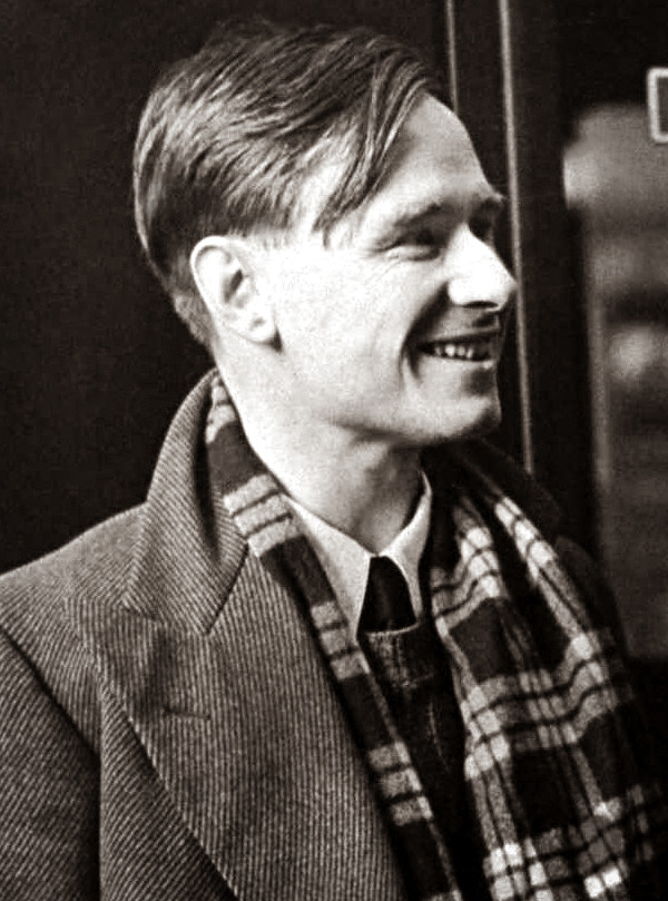 Daily Herald Archive at the National Media Museum. This photograph shows playwright Christopher Isherwood (1904-1986) chatting at Victoria Station, London.